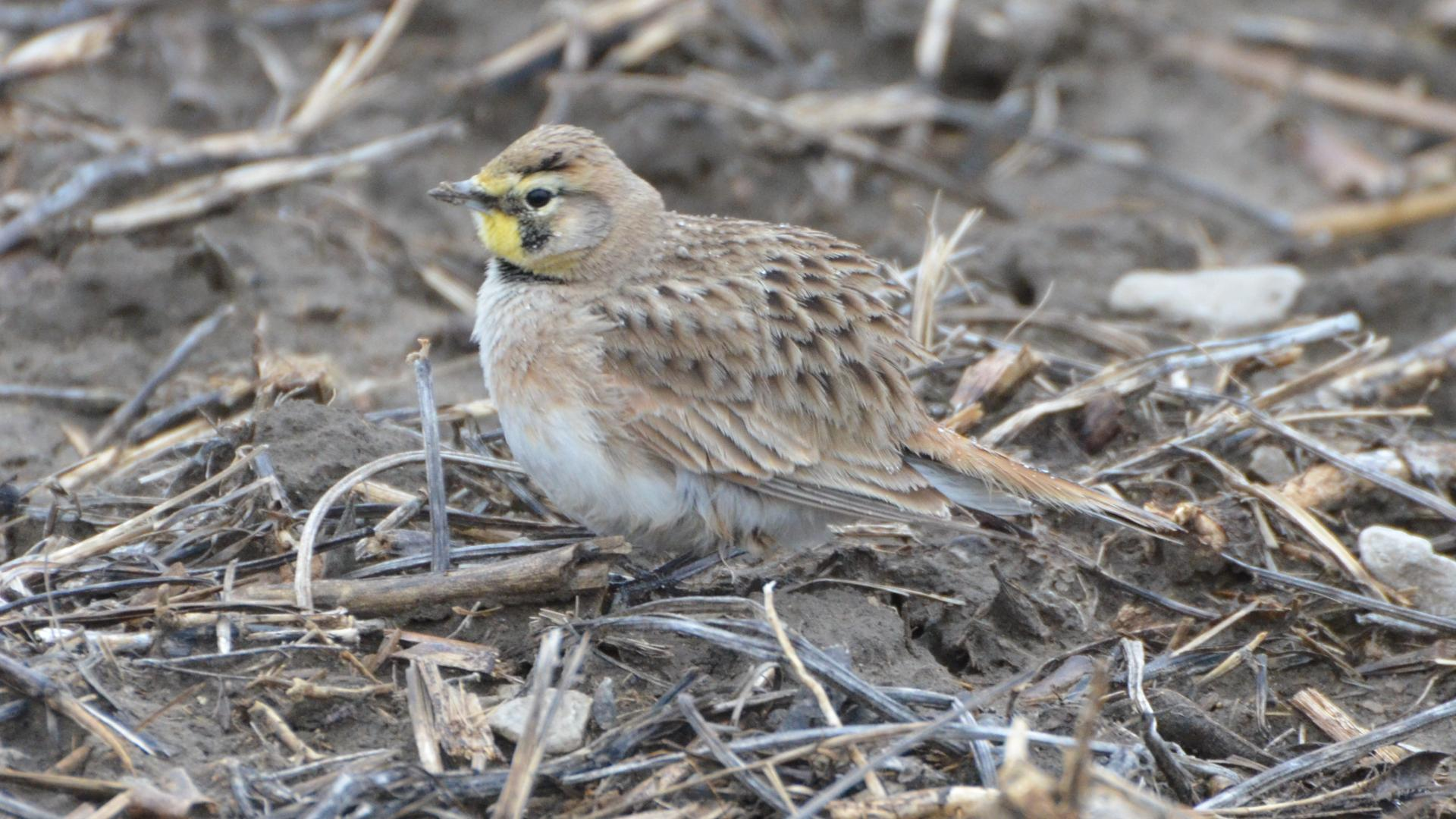 Riverlands Migratory Bird Sanctuary in Alton Missouri on 3/17/13